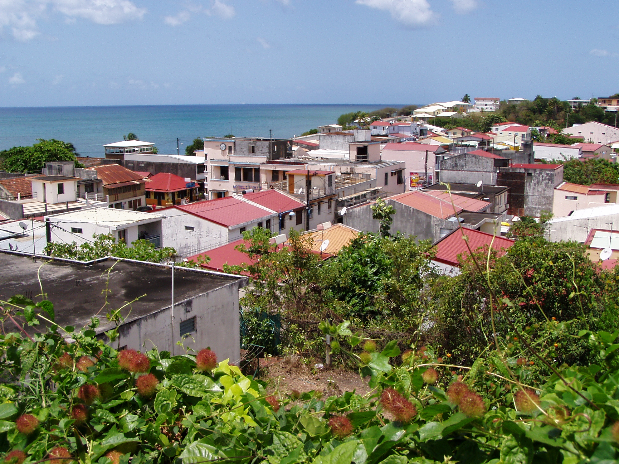 Sainte-Luce, view over the town